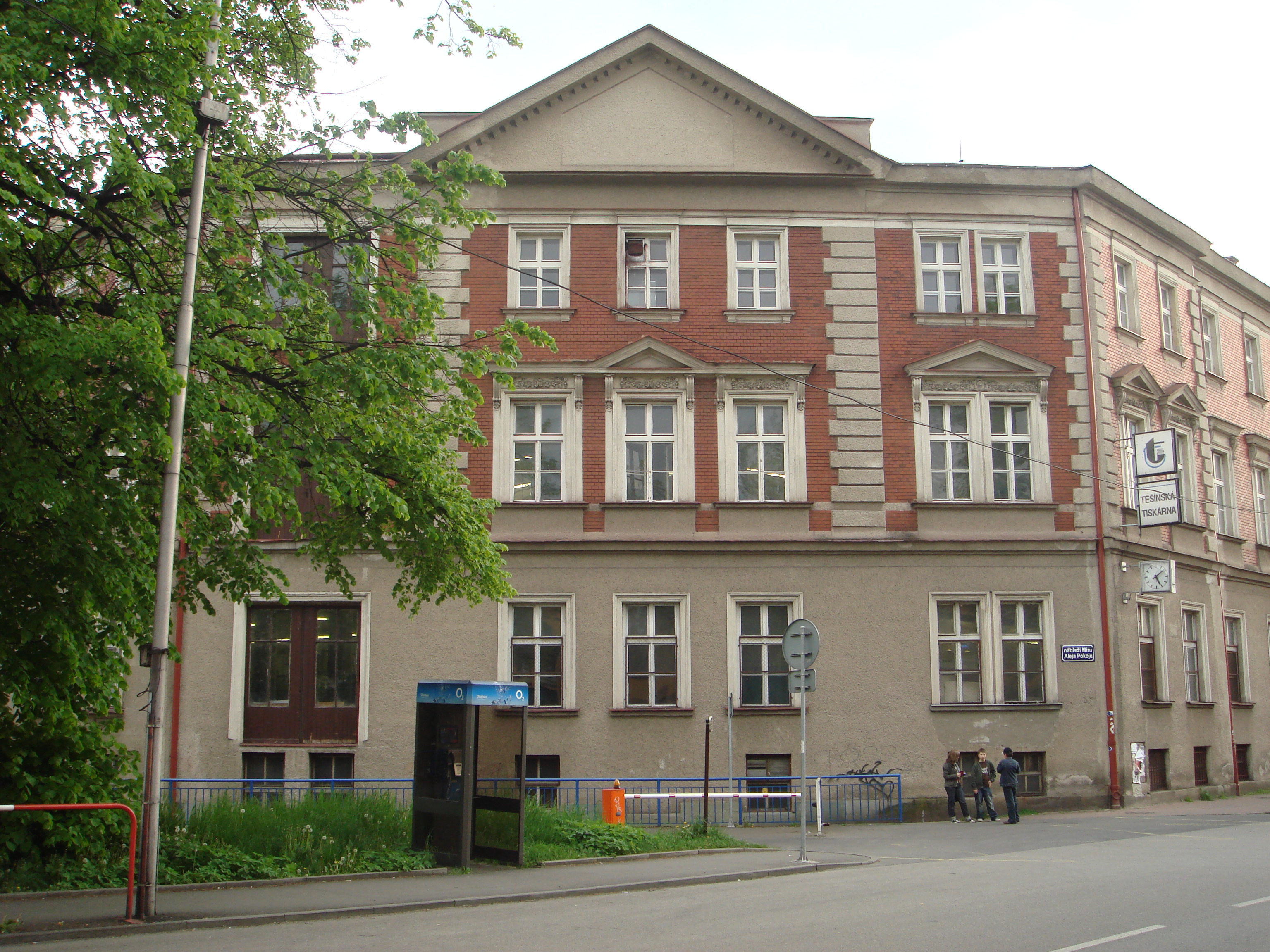 The Těšín Printing Works in Český Těšín (Moravian-Silesian Region, Czech Republic).